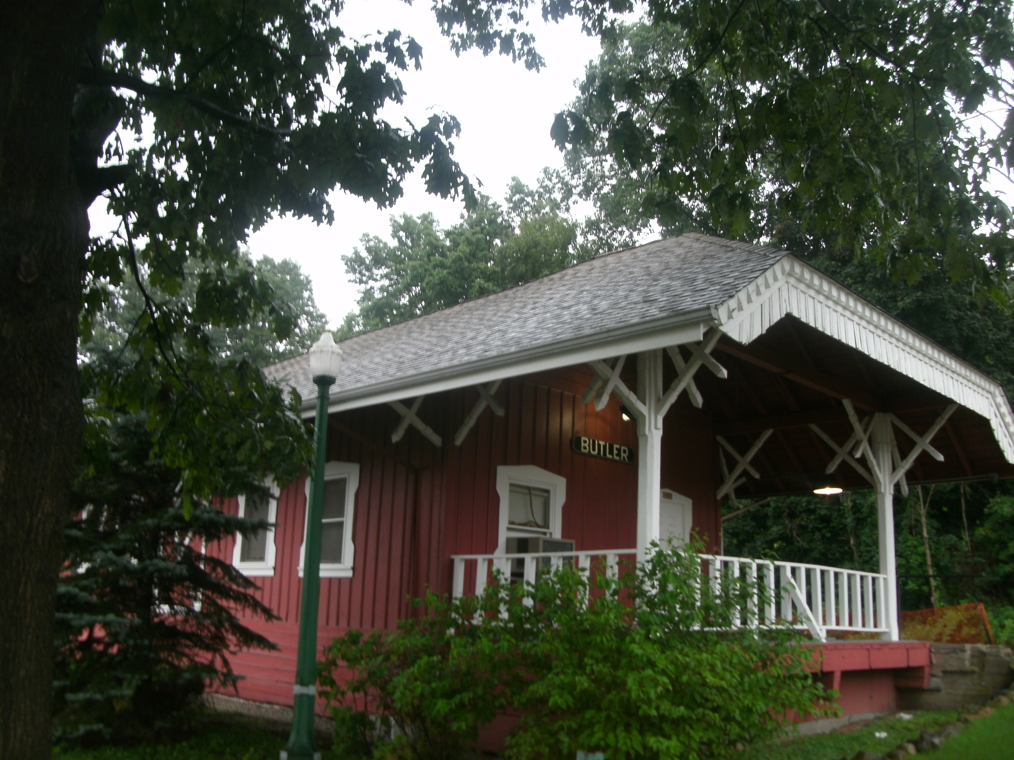 The Butler station for New York, Susquehanna and Western Railroad in August 2011.